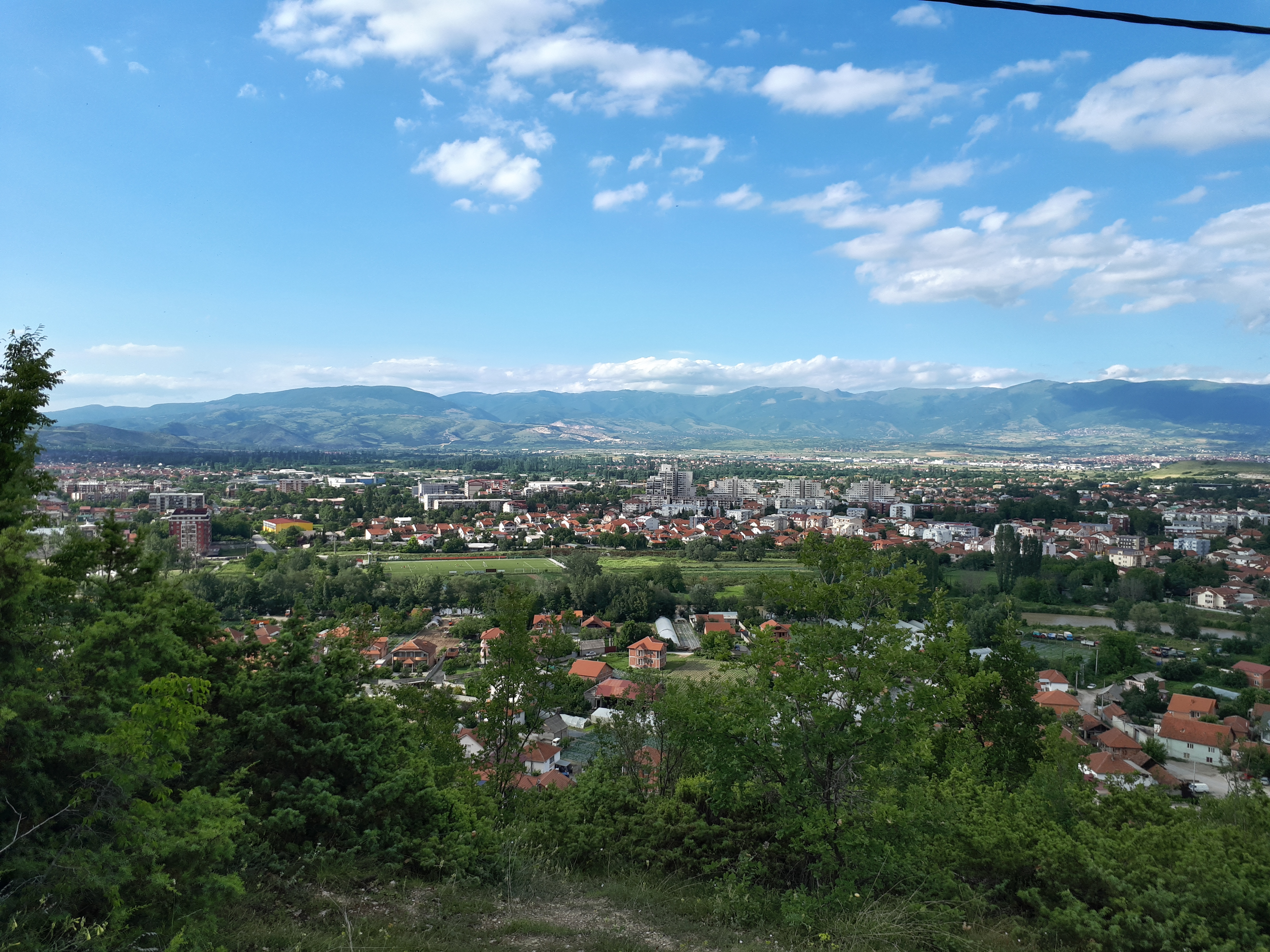 View of the village Laka and settlement Hrom in Skopje